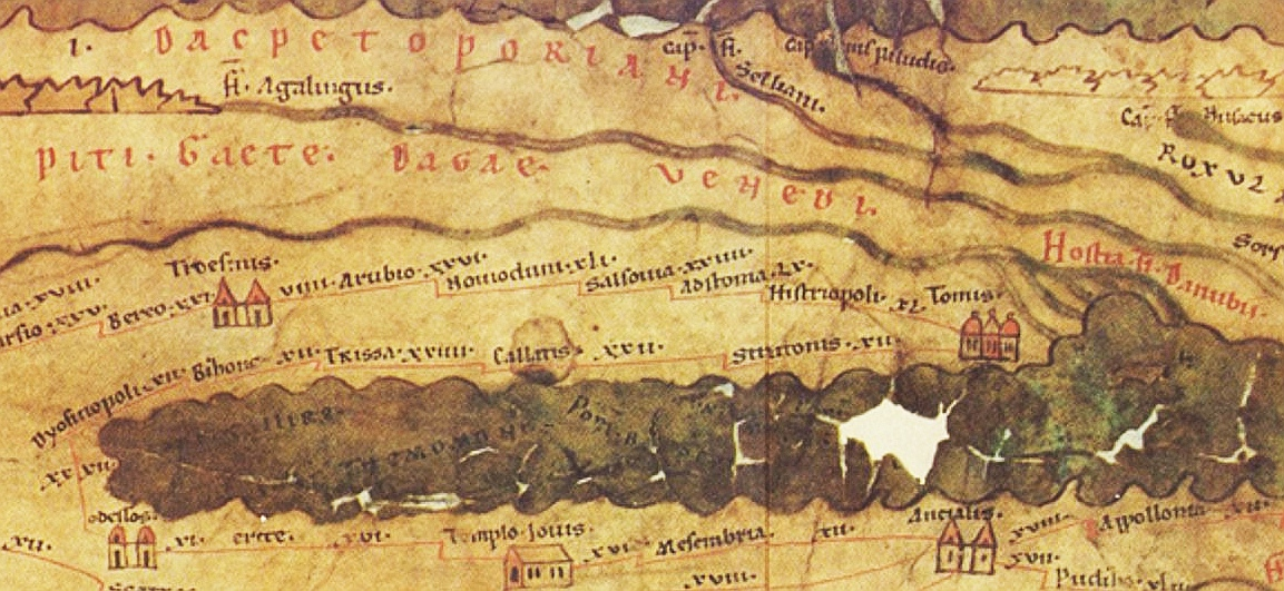 Tabula Peutingeriana, centred on Noviodunum